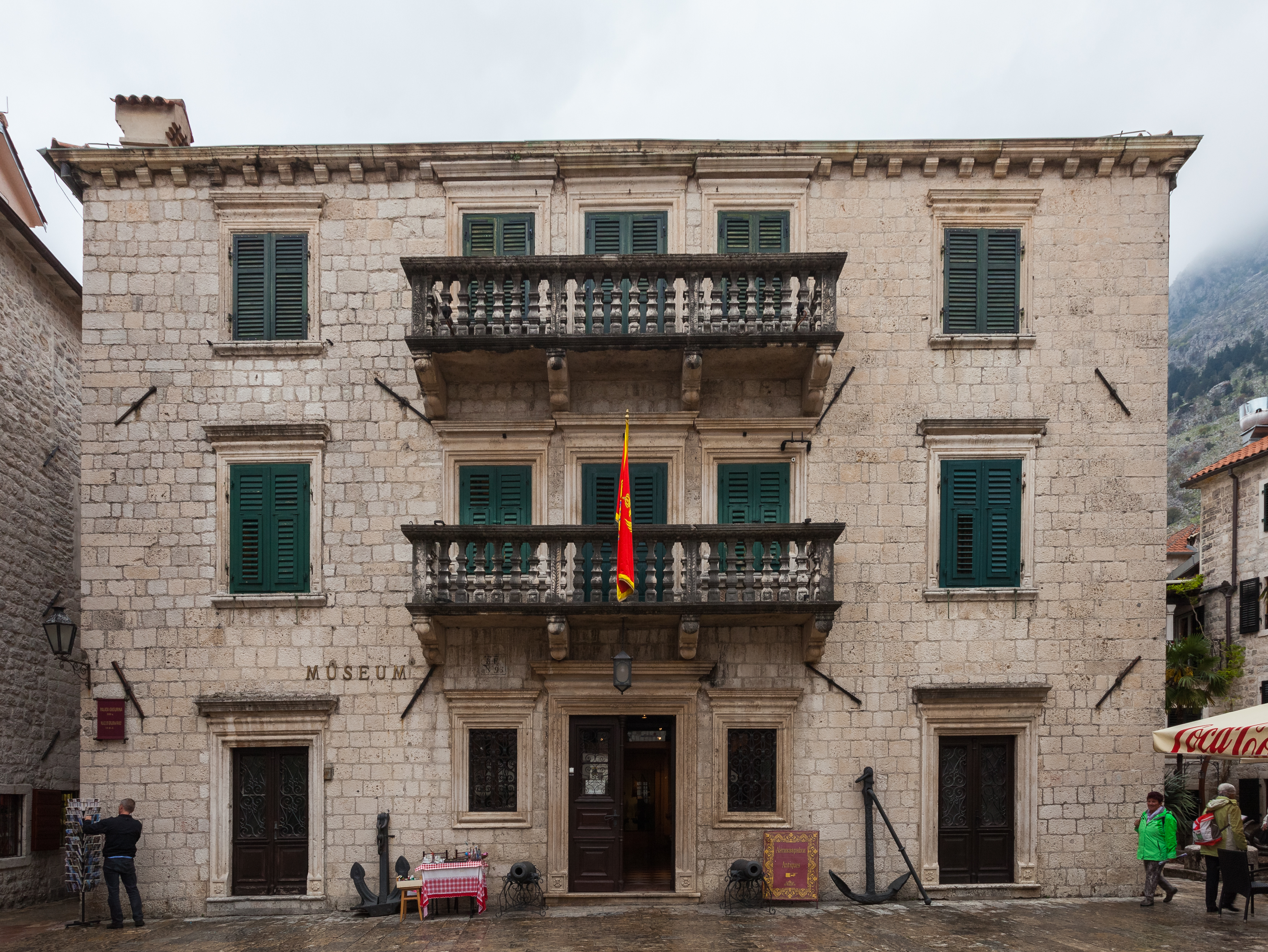 Sea museum, Kotor, Bay of Kotor, Montenegro